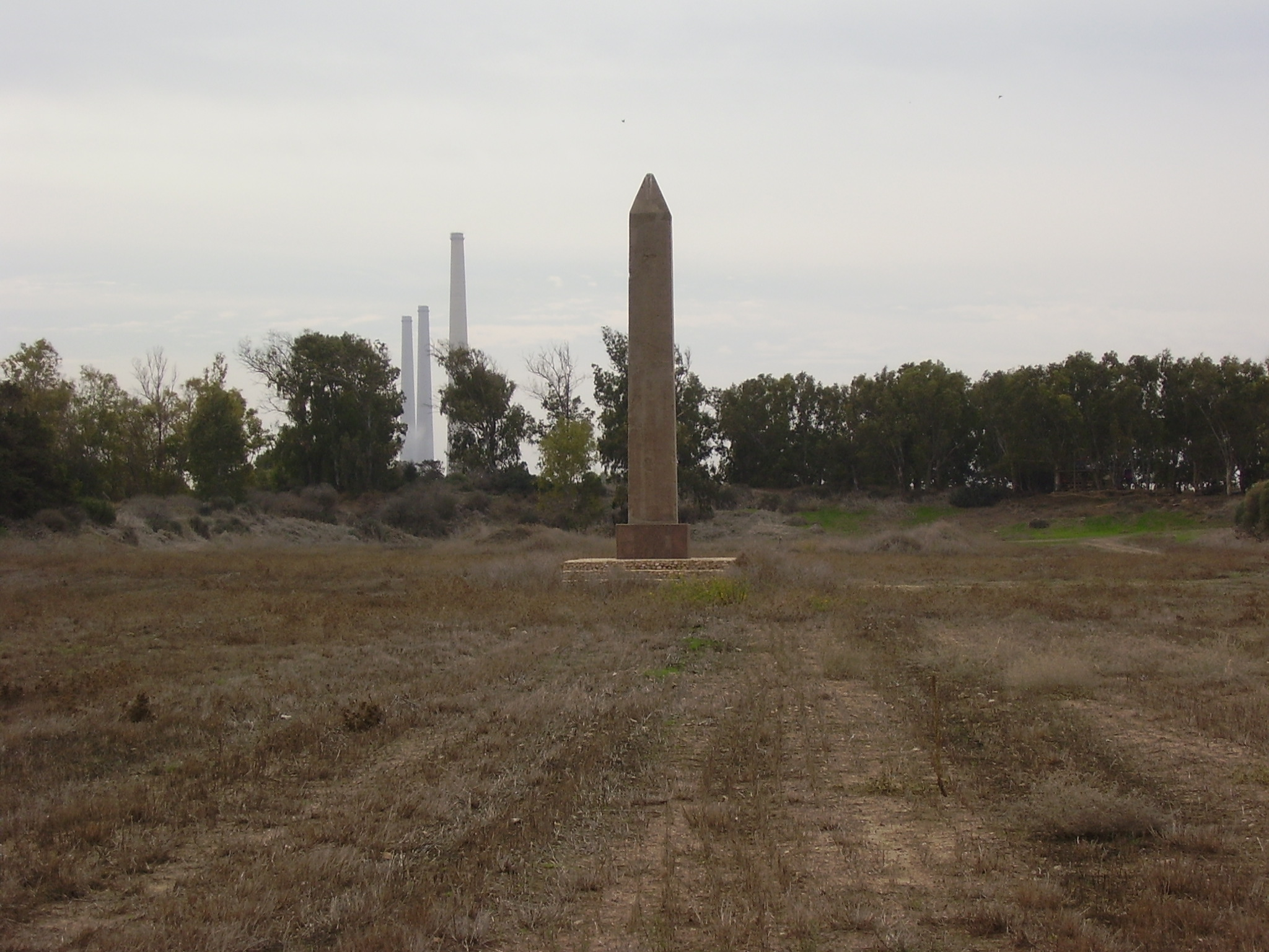 The Obelisk in the Hippodrome, Cesarea, Israel.